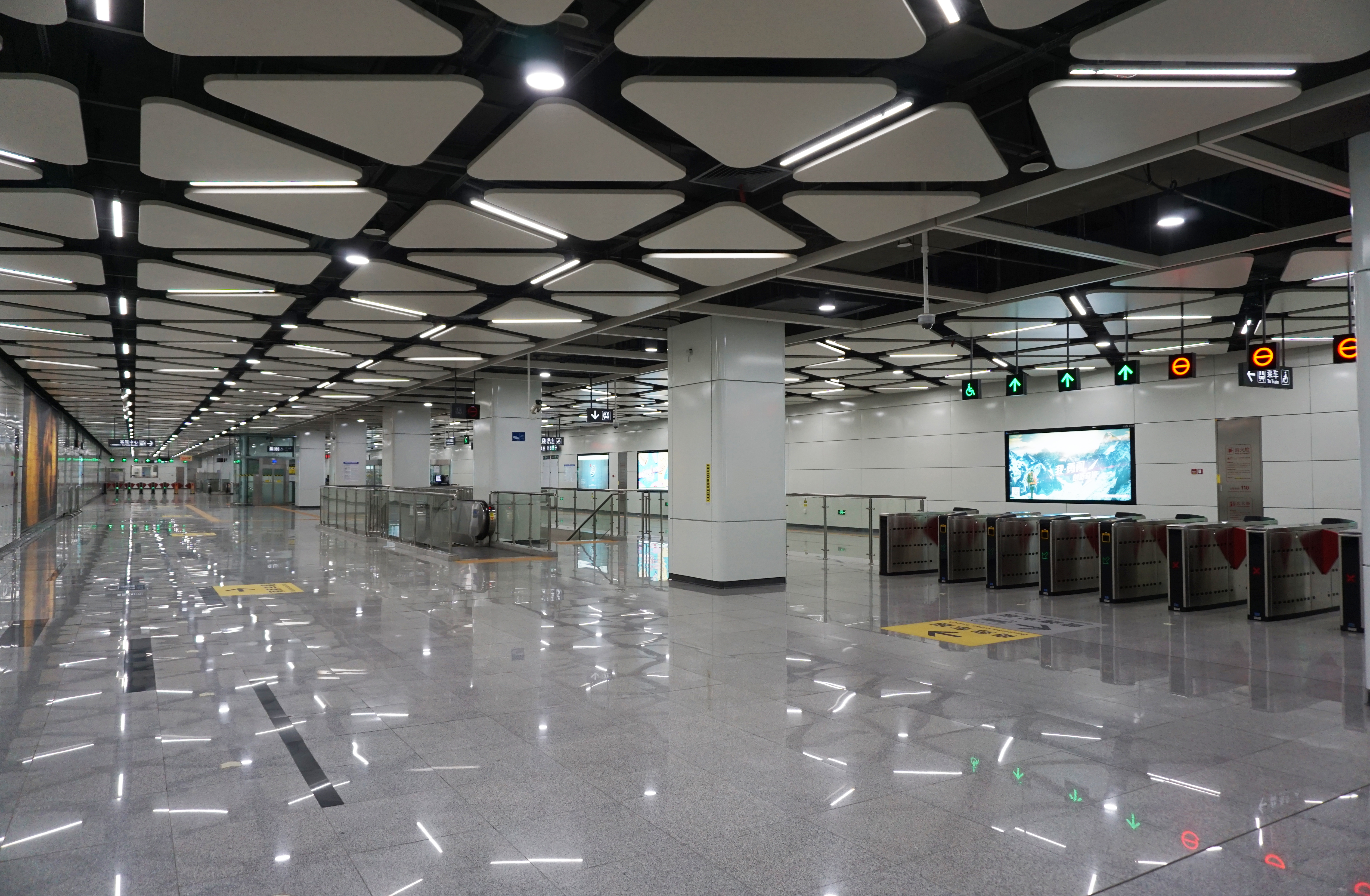 Airport North Station in Fuyong, Shenzhen.